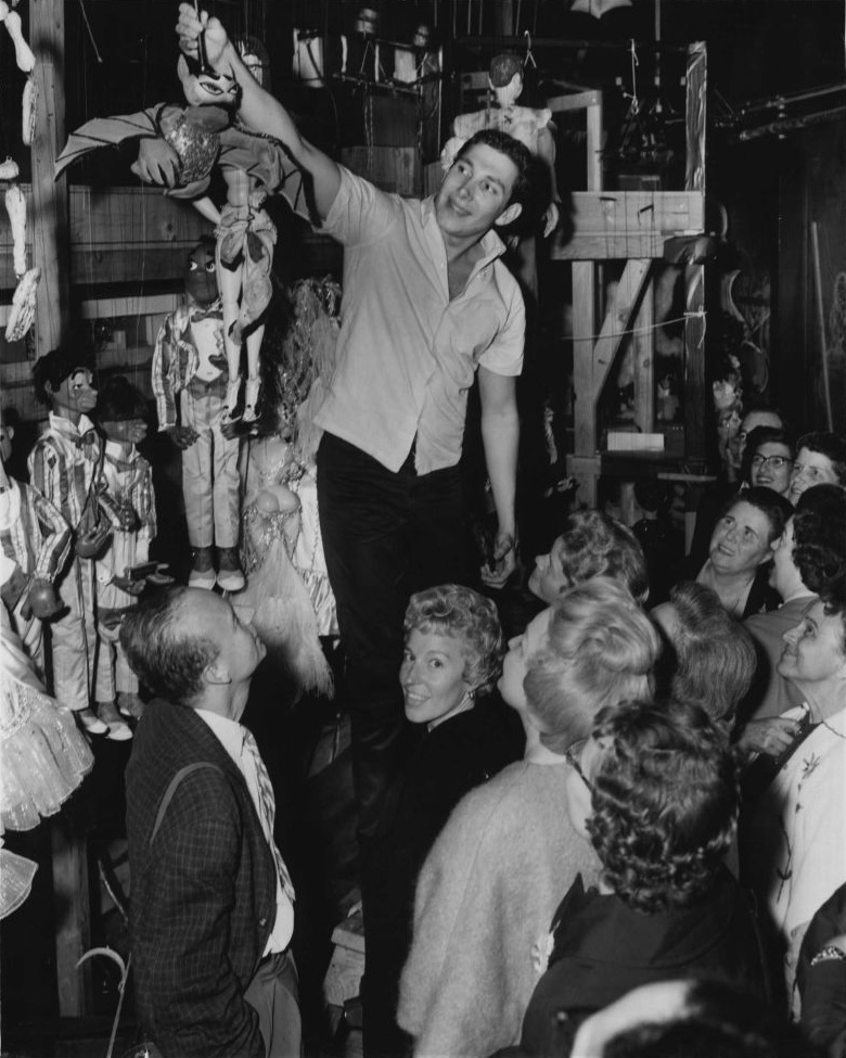 Press photo of Canadian producer and puppeteer, Marty Krofft displaying puppets to fairgoers backstage after a performance of Les Poupées de Paris at the 1962 Seattle World's Fair.